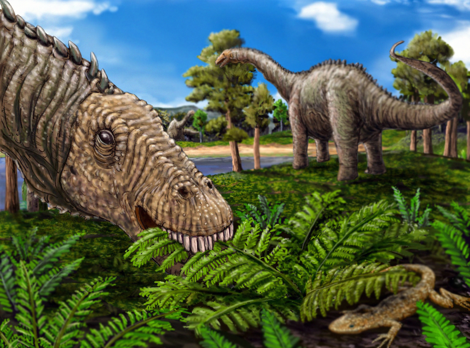 Restoration of Quaesitosaurus orientalis, showing hypothetical body.